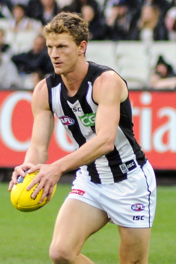 Will Hoskin-Elliott during the AFL round twelve match between Melbourne and Collingwood on 12 June 2017 at the Melbourne Cricket Ground in Melbourne, Victoria.